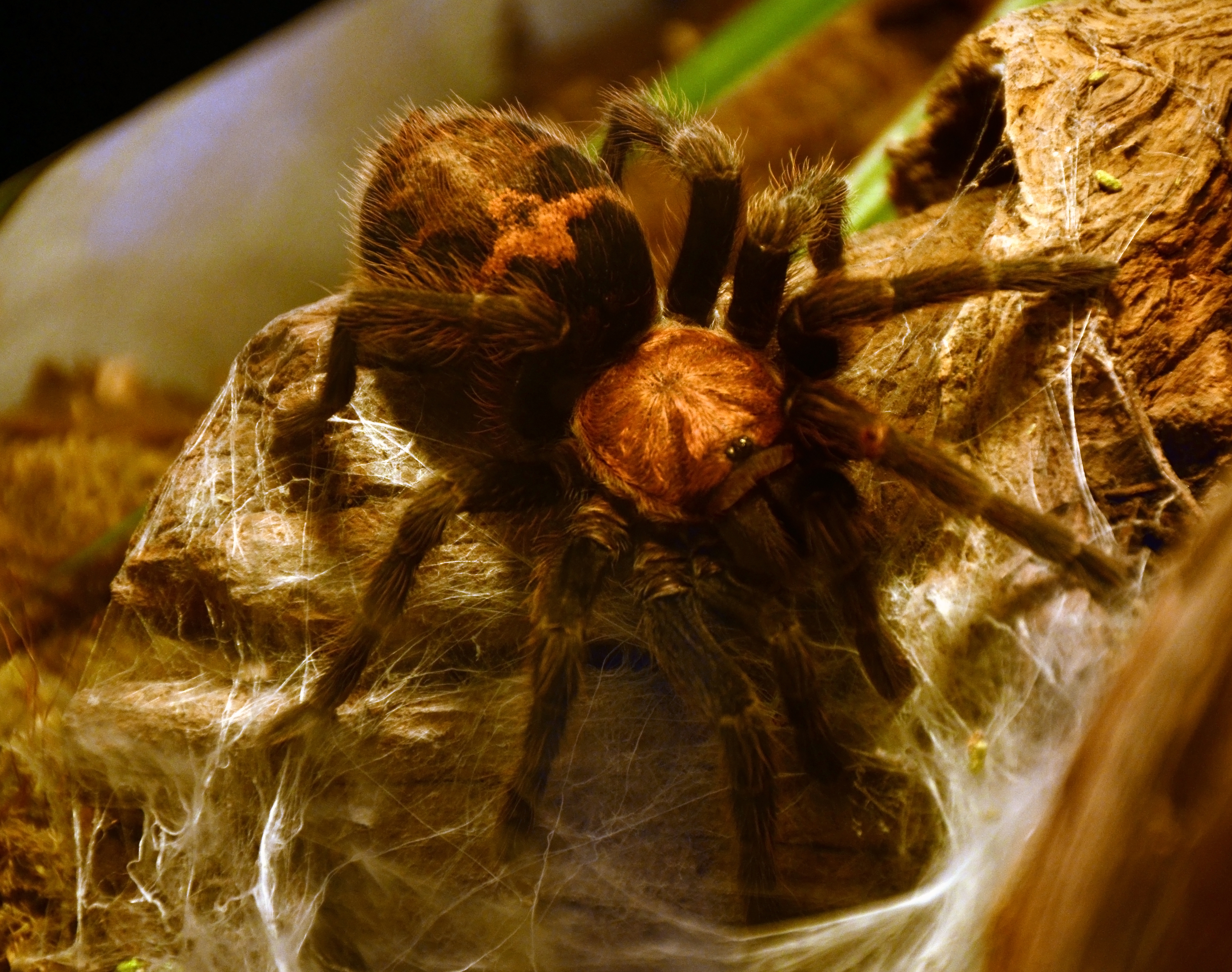 Costa Rican tiger rump (Davus fasciatus). Photograph taken in an temporary exhibition in the Natural History Museum of Maastricht.